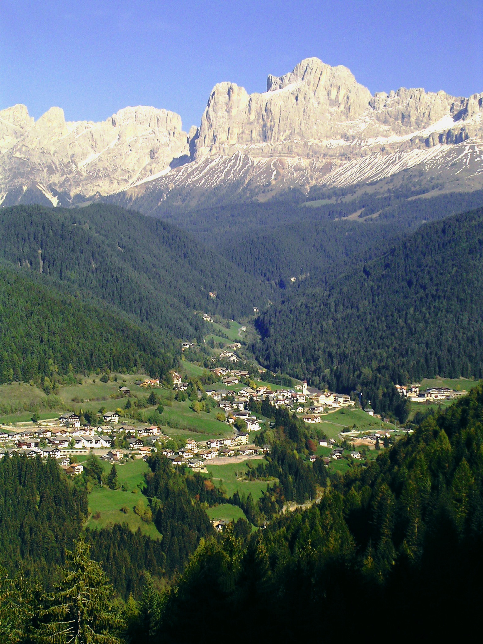 Description: View of Welschnofen with the Rosengarten mountain in the background Author: EK Gemeinde Welschnofen